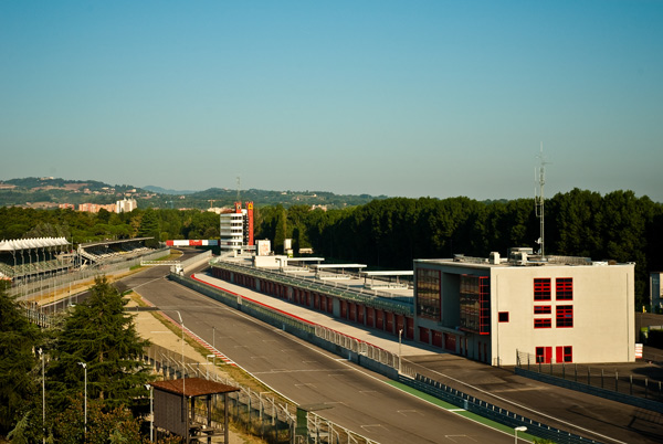 Circuit view